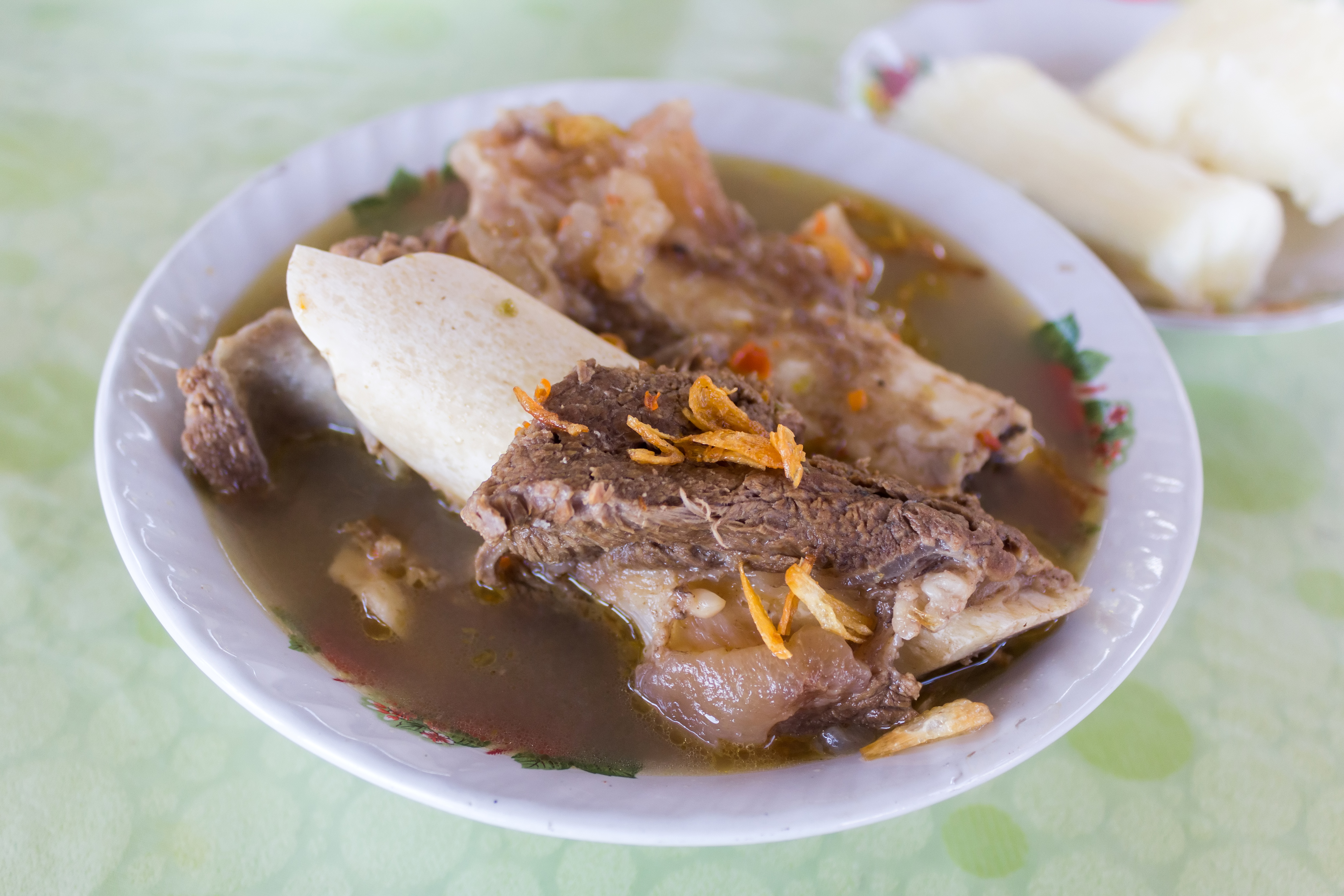 Kaledo soup, purchased at a small restaurant outside Donggala, Central Sulawesi, 2018-09-16. Served with a plate of tubers.